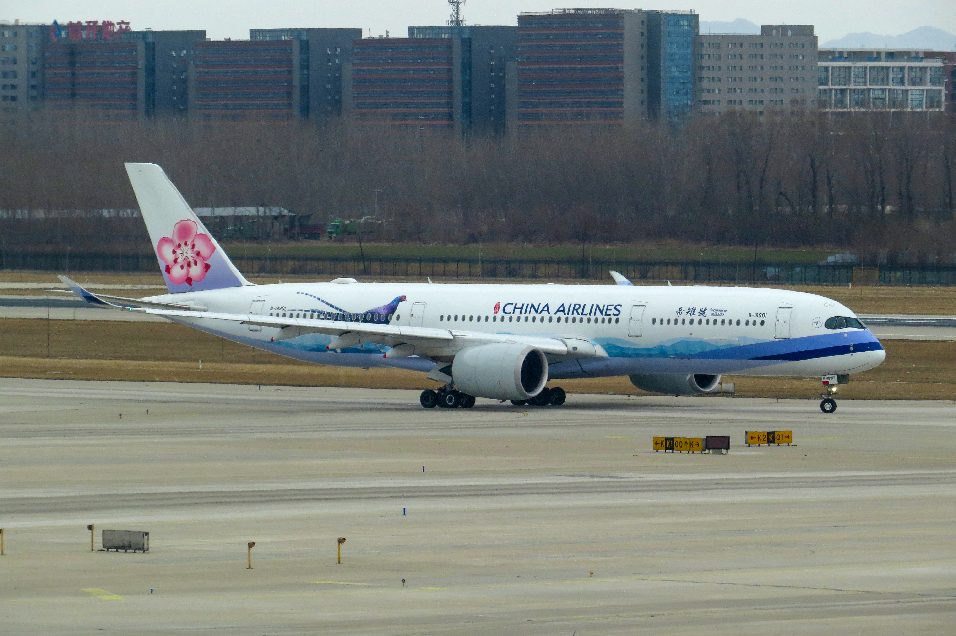 Dynasty 512 to Taipei. It's China Airlines' second A350 flight to Beijing, and probably the first visit of this Syrmaticus Mikado to ZBAA. Let's wait for more birds.